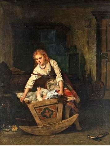 Child of Joy